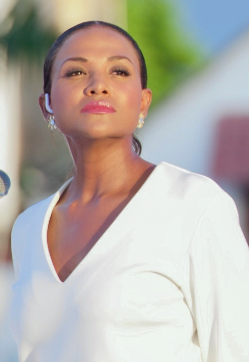 A hostess presiding over a peace ceremony between the government and the Revolutionary Armed Forces of Colombia (FARC) that ended a five-decade conflict listens to a group of singers perform as U.S. Secretary of State John Kerry and others looked on from a plaza outside the Cartagena Indias Convention Center in Cartagena, Colombia, on September 26, 2016. [State Department Photo/Public Domain]